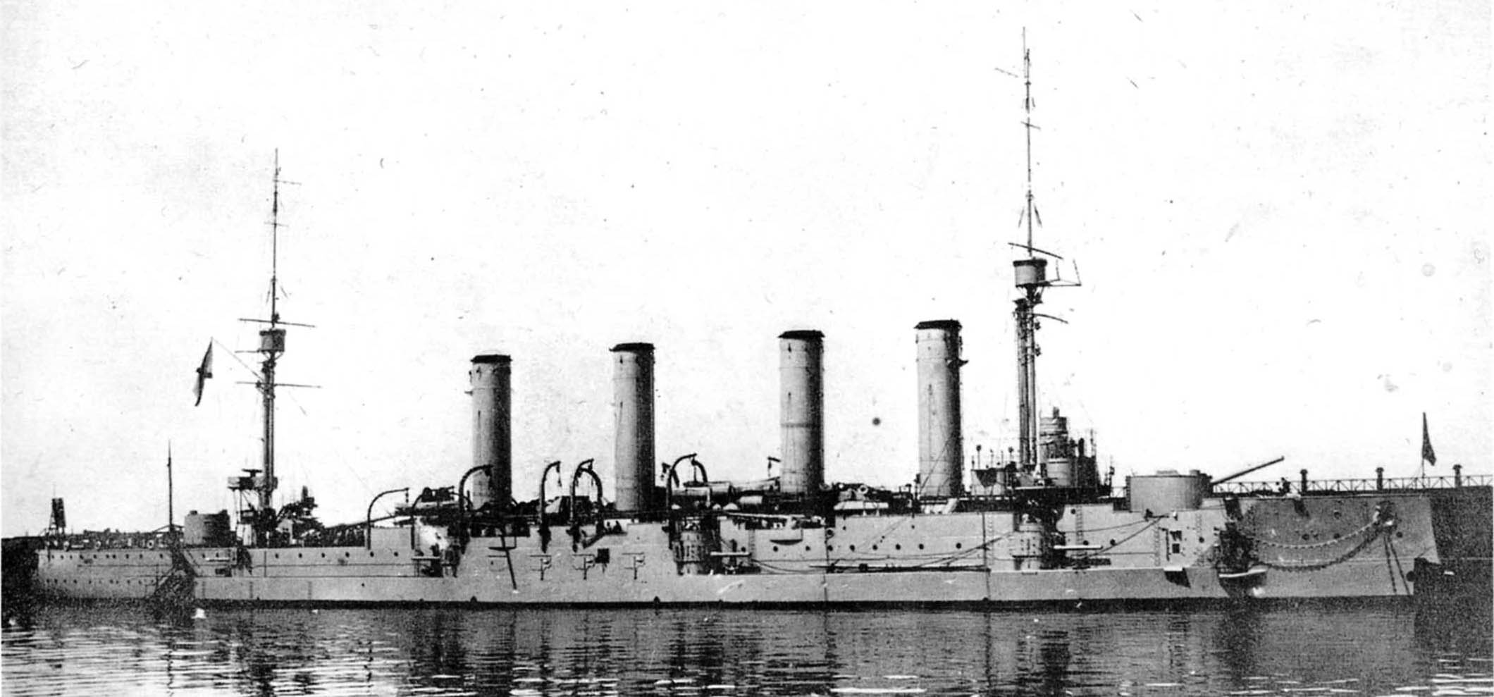 Imperial Russian armoured cruiser Bayan (II), 1915-1917.